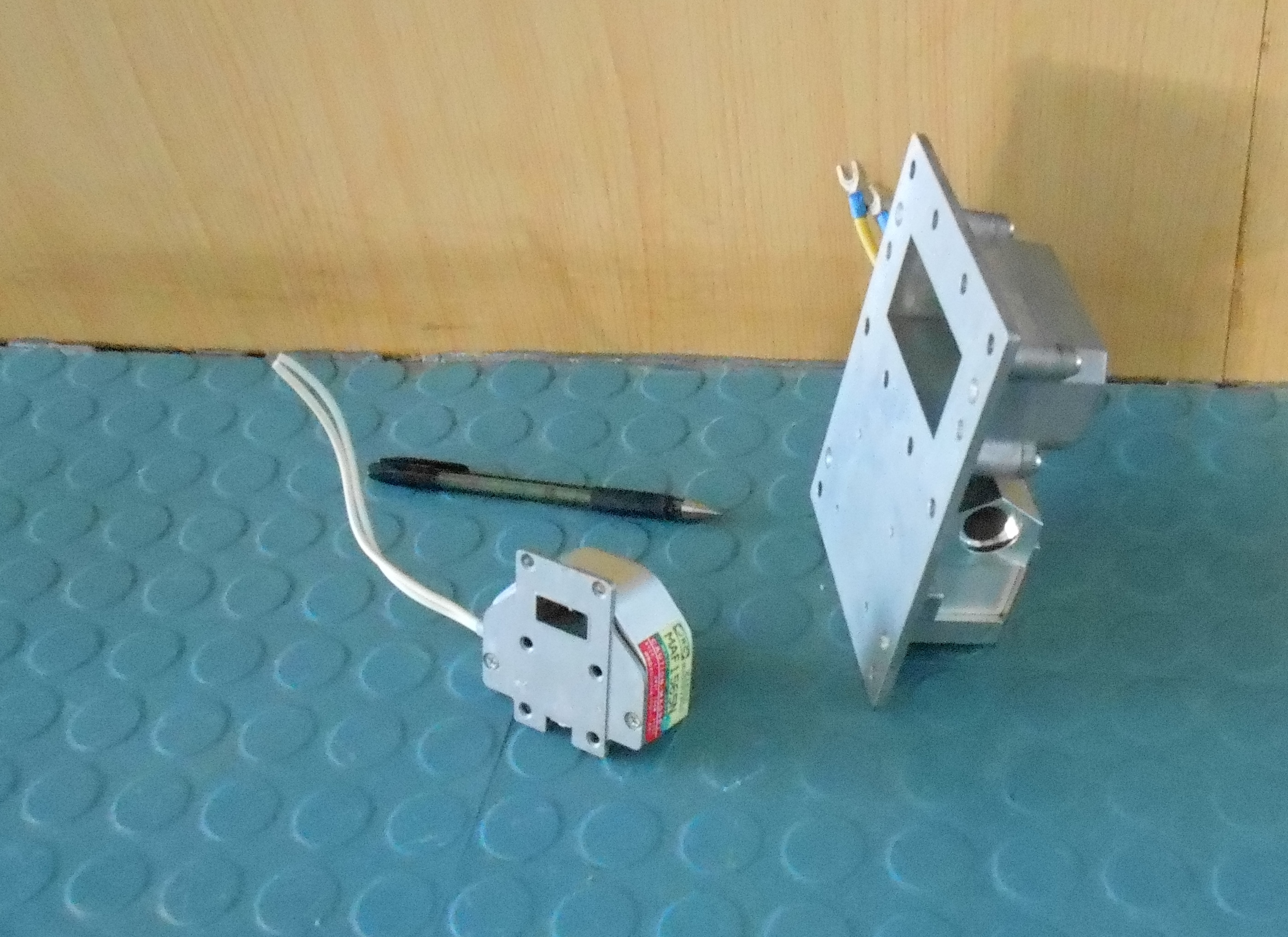 Forth generation magnetrons from ship's radars. Smaller is from X-band radar (vavelength 3 cm), bigger one from S-Band radar (10 cm).